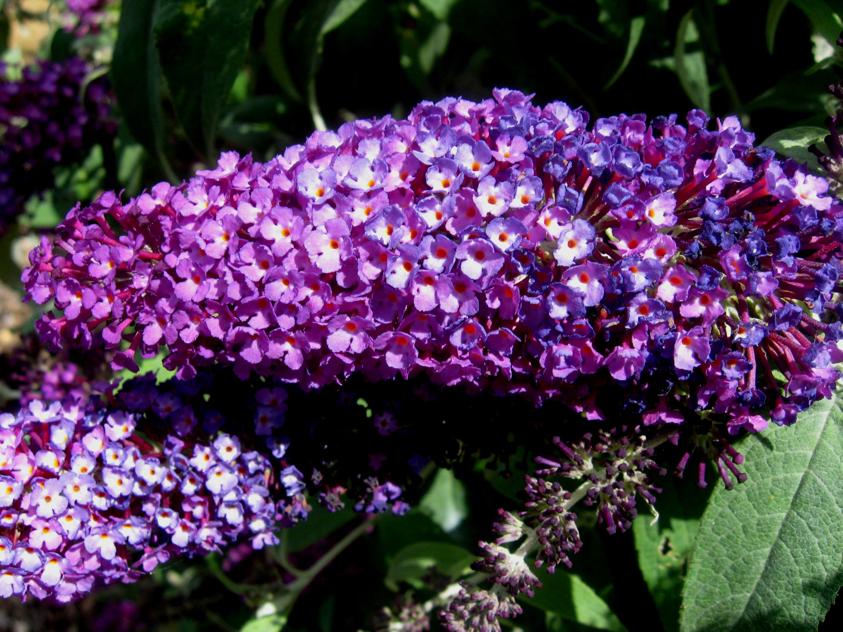 Photo of Buddleja 'Buzz Magenta', panicle, Longstock Park, UK